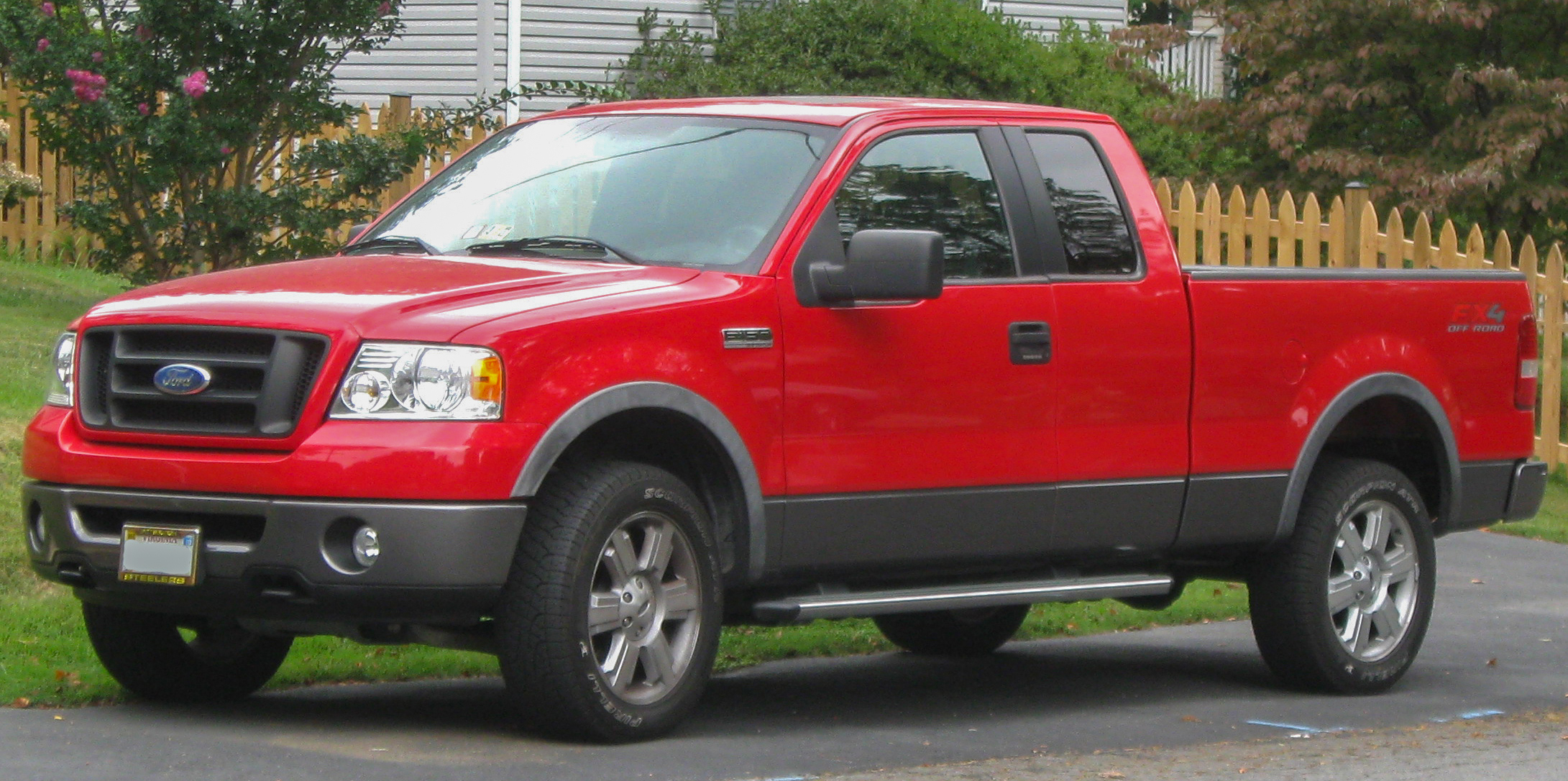 2004-2008 Ford F-150 photographed in Fairfax, Virginia, USA.